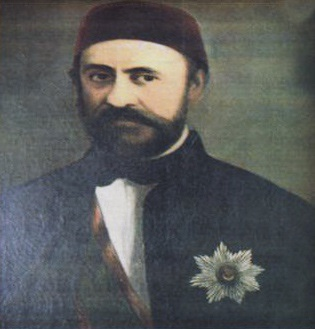 Painting of Mehmed Emin Âli Pasha (March 5, 1815 – September 7, 1871)